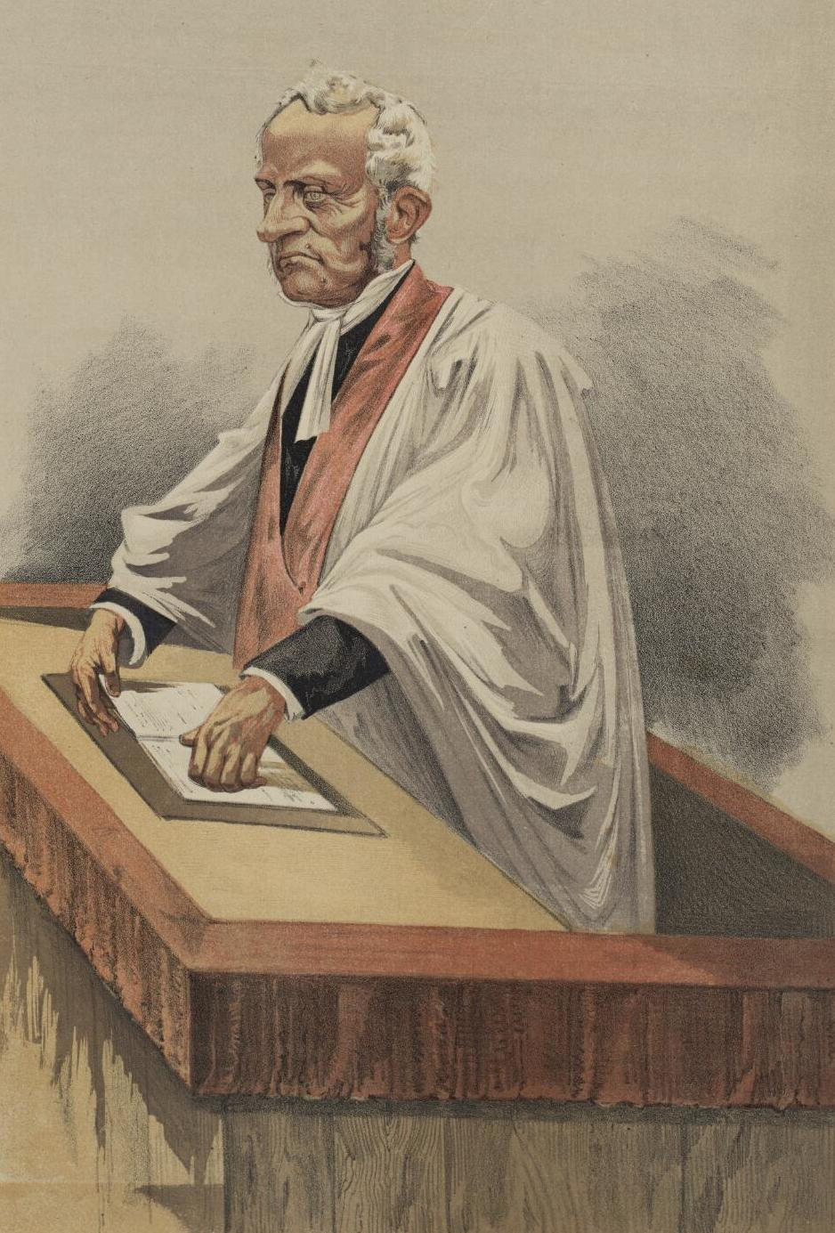 A portrait from the Welsh Portrait Collection at the National Library of Wales. Depicted person: Arthur Penrhyn Stanley – English churchman, Dean of Westminster